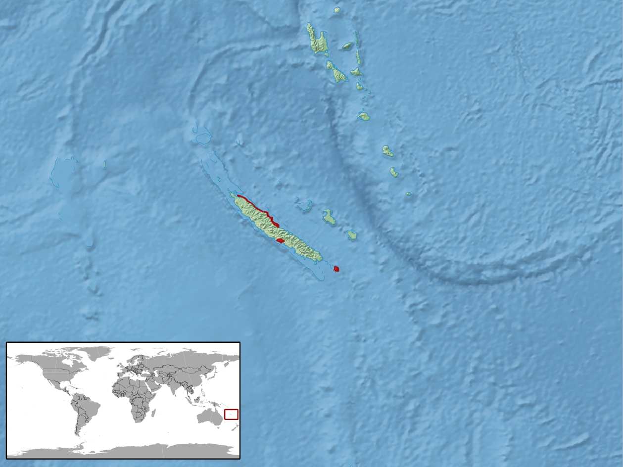 geographic distribution of Tropidoscincus aubrianus